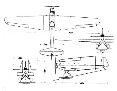 DKW Erla Me 5a 3-view drawing from L'Aerophile September 1933